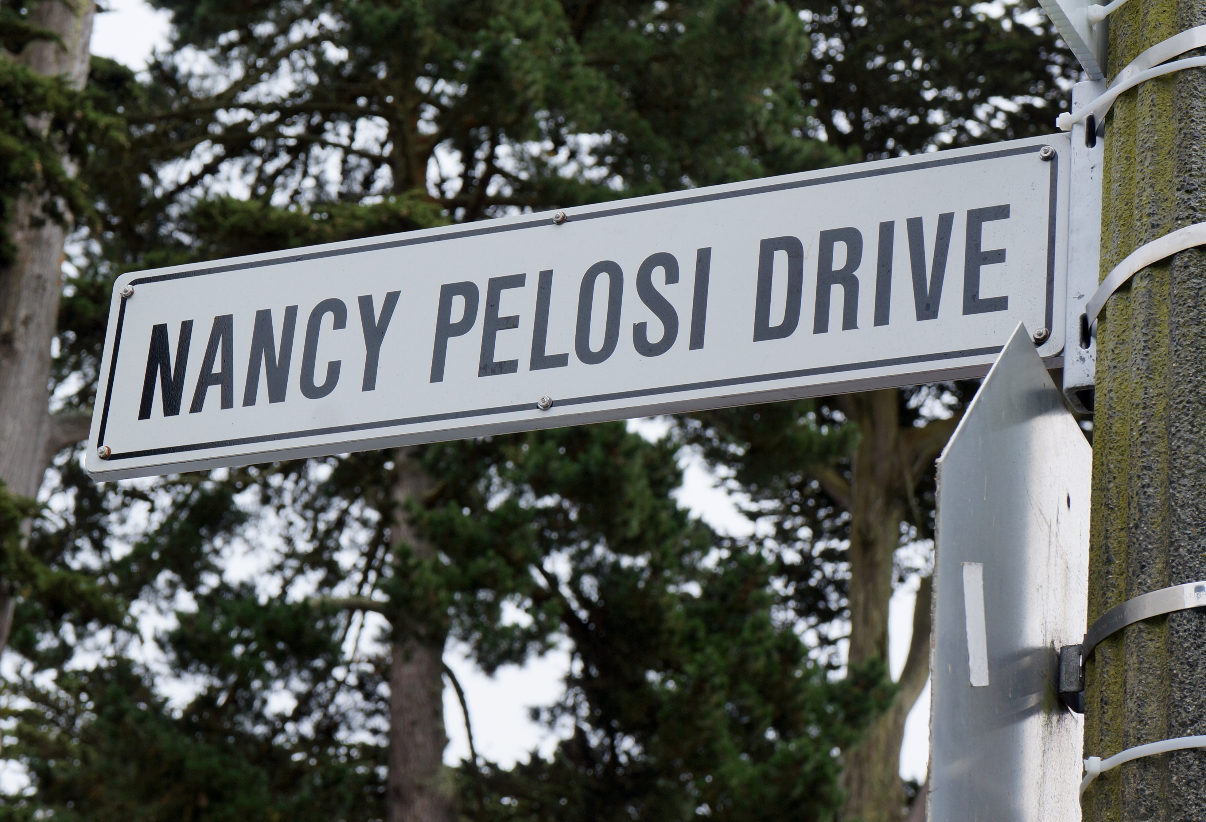 Newly instated Nancy Pelosi Drive in San Francisco's Golden Gate Park, in honor of the city's longtime congresswoman.